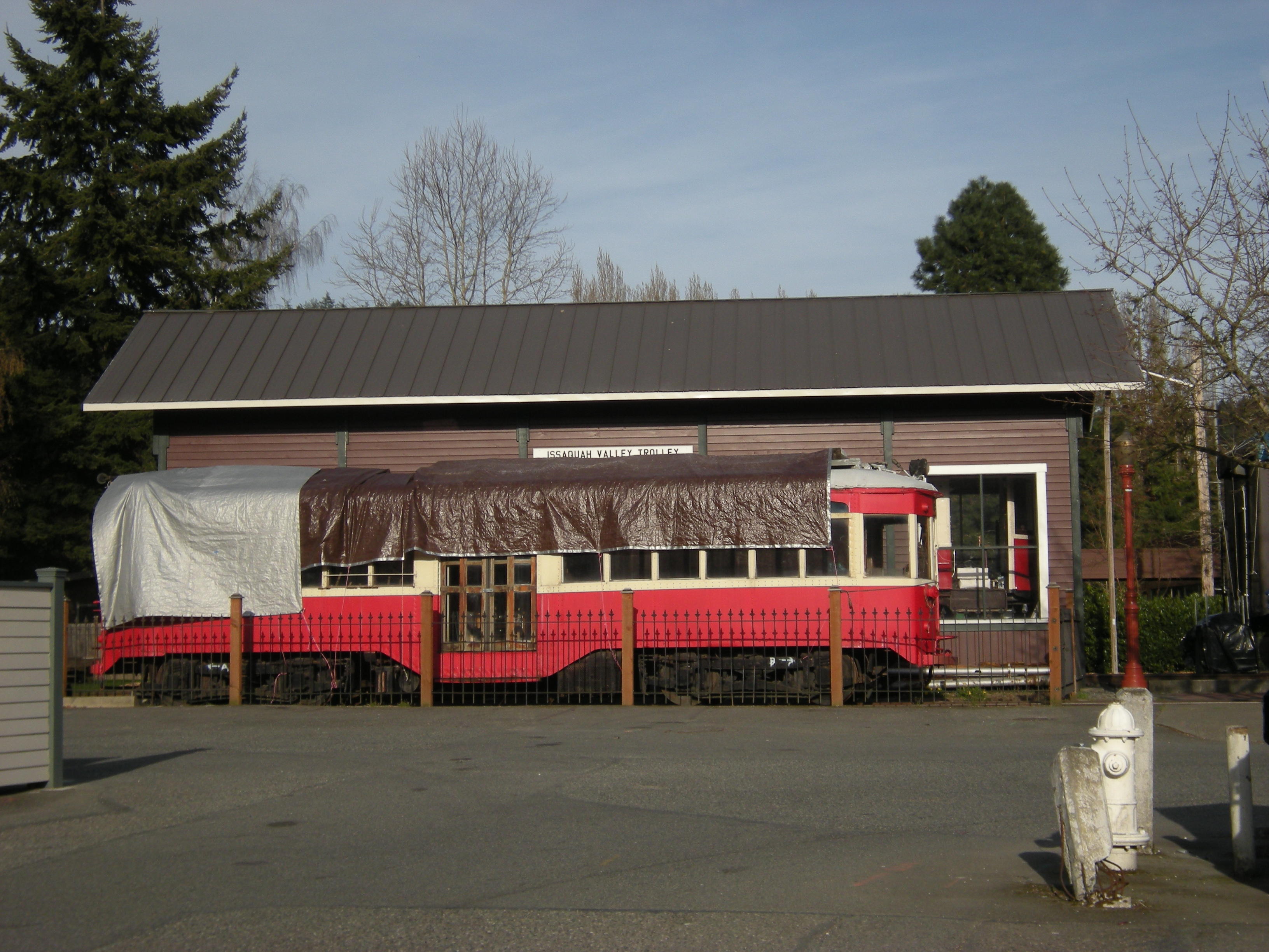 Ex-Milan tram 96, an old interurban car, parked next to the carbarn of the Issaquah Valley Trolley (tram) heritage-streetcar service, at Issaquah Depot (out of view to the right), in Issaquah, Washington. Car 96 was never operational while in Issaquah, and it was sold to a group in Oregon in 2015 (and left Issaquah in December 2016). An ex-Lisbon car provides the service on the line.